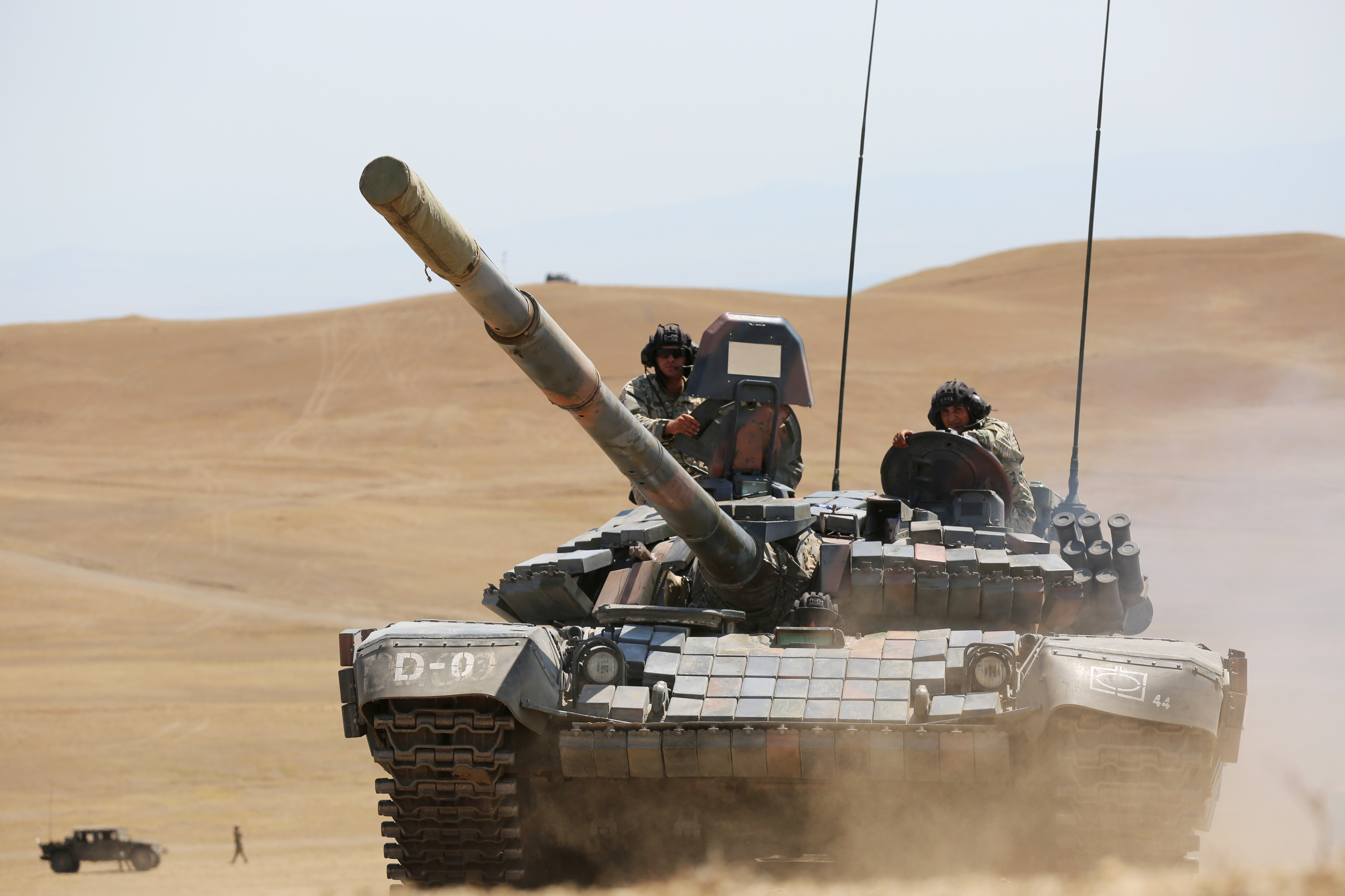 Georgian soldiers, 44th Armored Battalion, drive a T-72 tank towards a fighting position during a combined training exercise, Vaziani, Republic of Georgia, Aug. 6, 2017. Noble Partner 17 supports Georgia in conducting home station training of its second NATO Response Force (NRF) contribution. Noble Partner will further enhance NRF and Operational Capabilities Concept interoperability and readiness in order to support regional stability. (U.S. Army photo by Sgt. Kalie Jones)